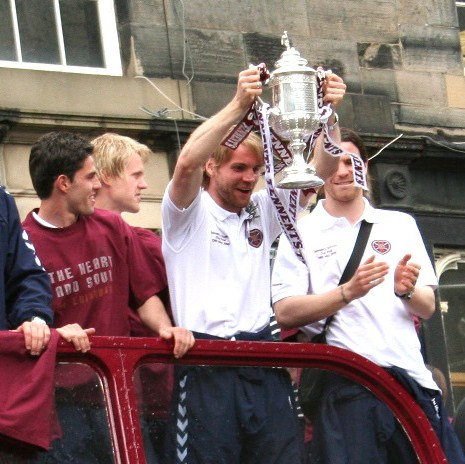 Robbie Neilson. Image cropped from original at Flickr.